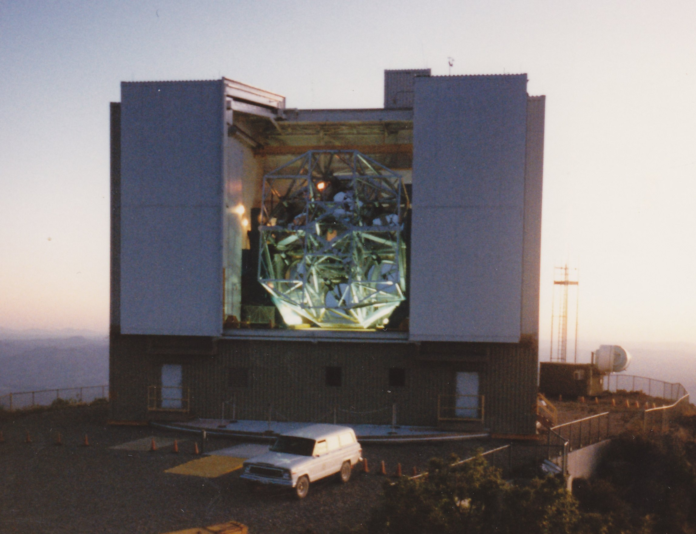 Multi Mirror Telescope in Fred Lawrence Whipple Observatory in 1981